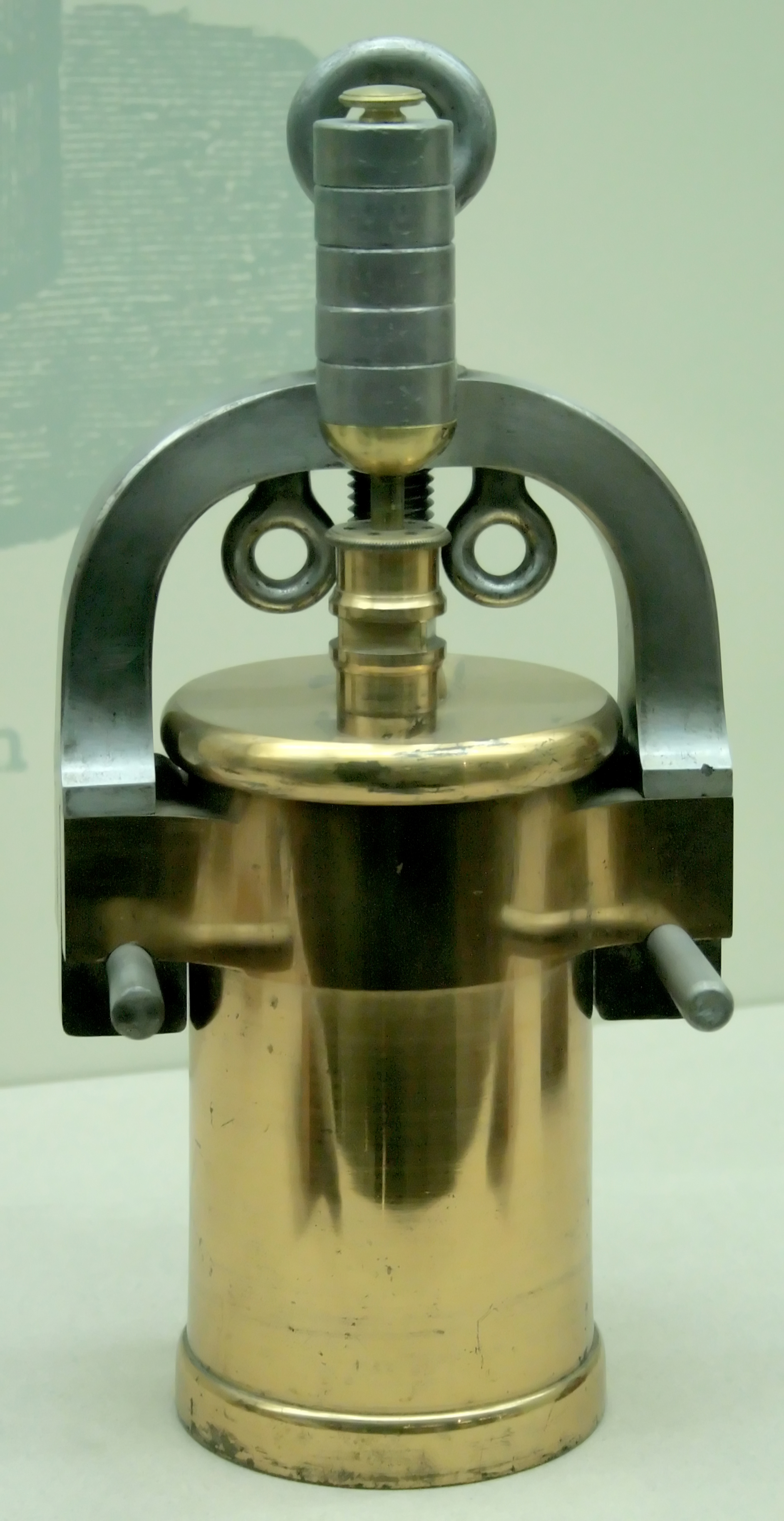 Digester as designed by Denis Papin 1680